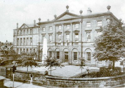 Historic photograph of Derby School at St Helen's House, Derby, in 1920.